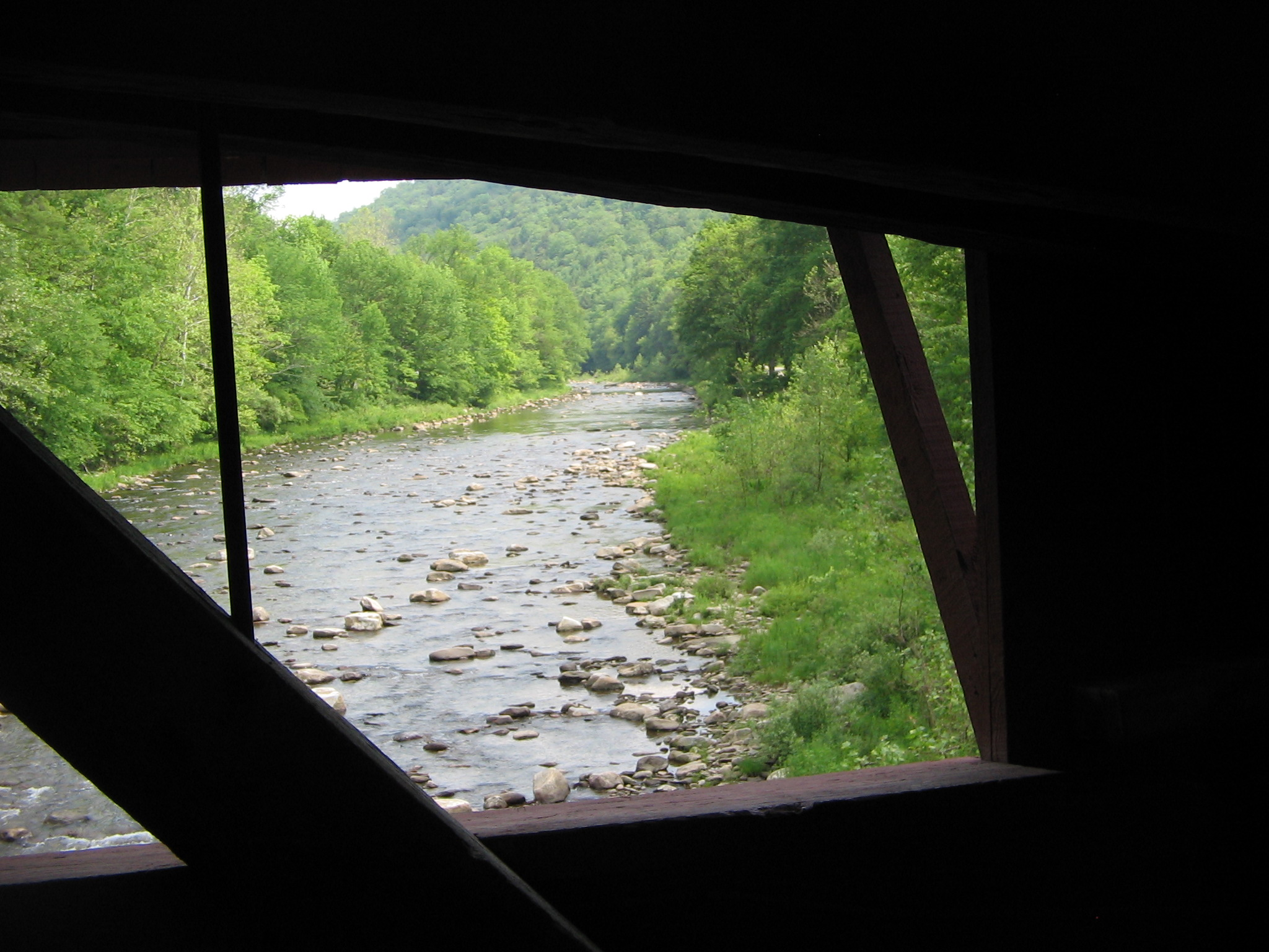 Looking out westernmost window of Forksville Covered Bridge in Forksville, Sullivan County, Pennsylvania in the United States, looking south to Loyalsock Creek